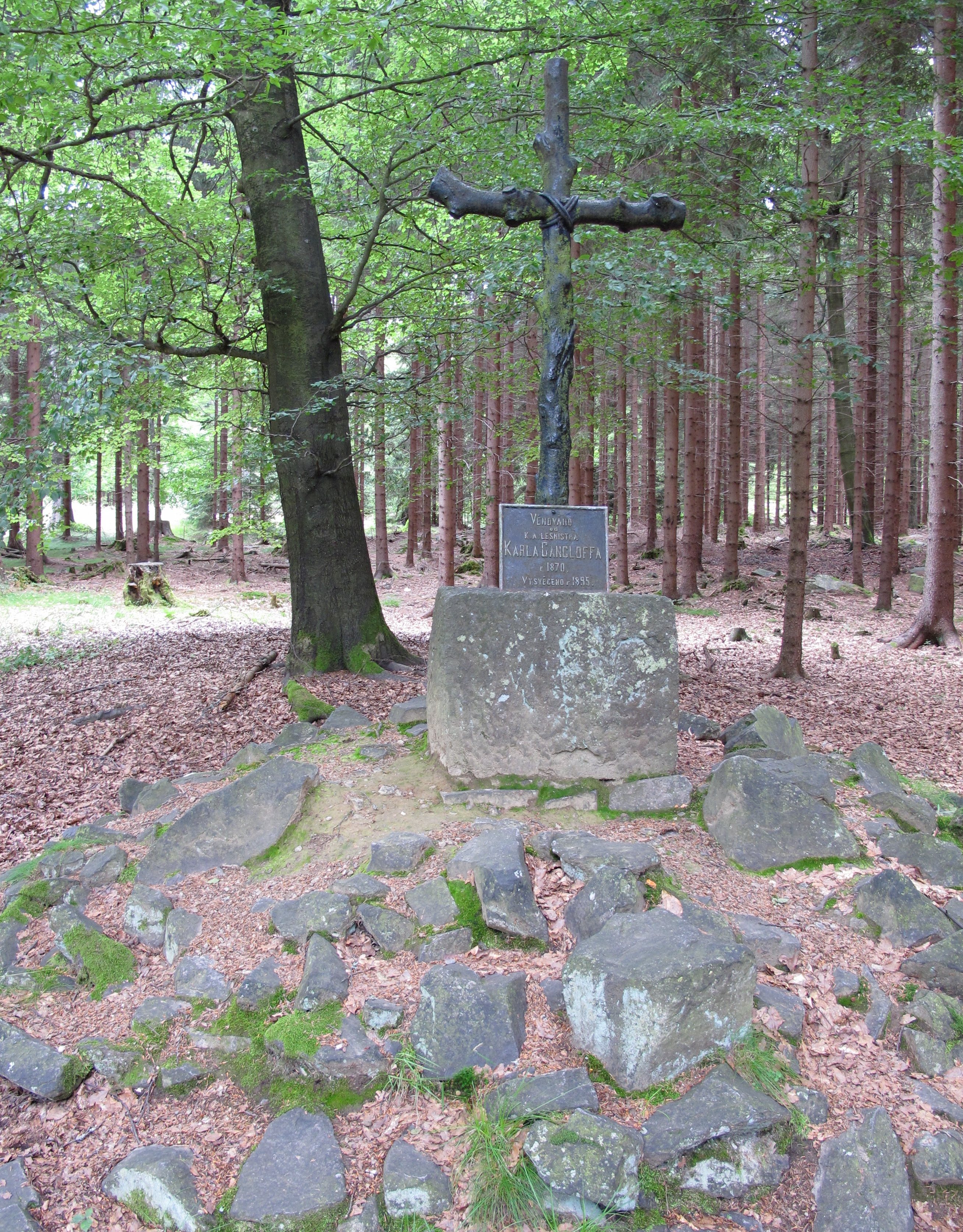 Cross in Nature park Třemšín, Příbram District in Czech Republic